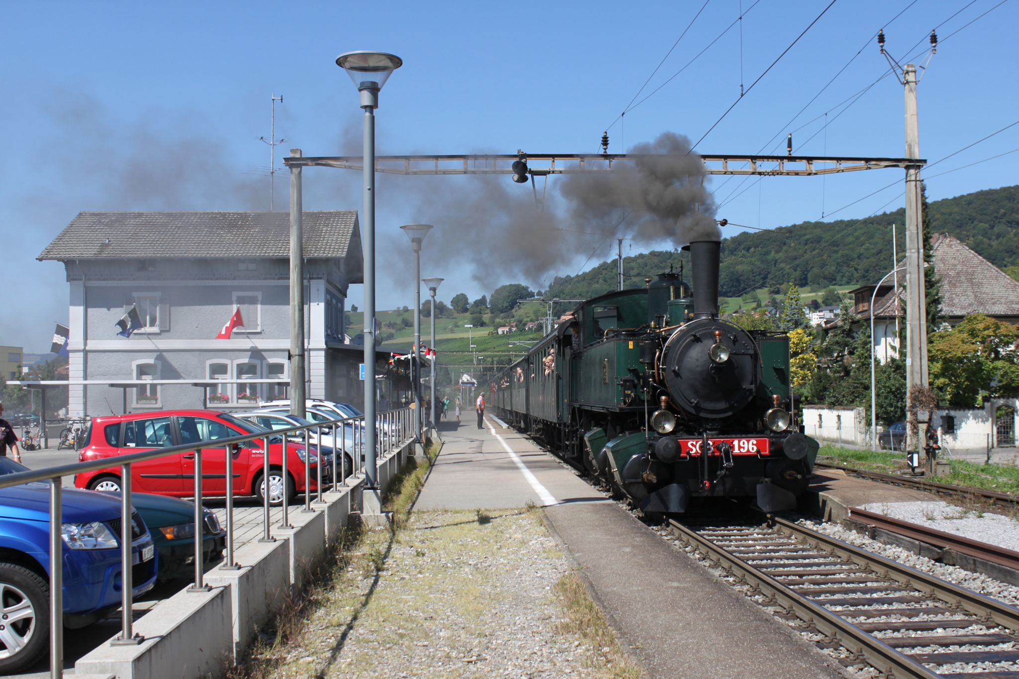 SBB CFF FFS Ed 2x2/2 196 at Döttingen train station.